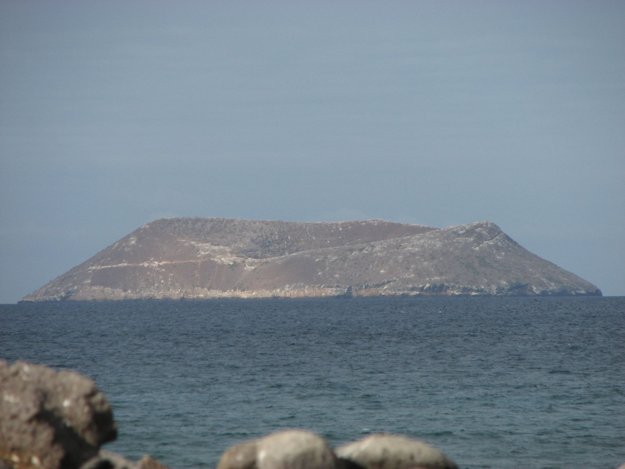 December 7, 2006: The island named Daphne Major